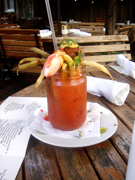 A Bloody Mary teeming with pickled green beans, sprinkled with shredded basil and chives, a giant crab claw and completed with a mustardy scotch quail egg.